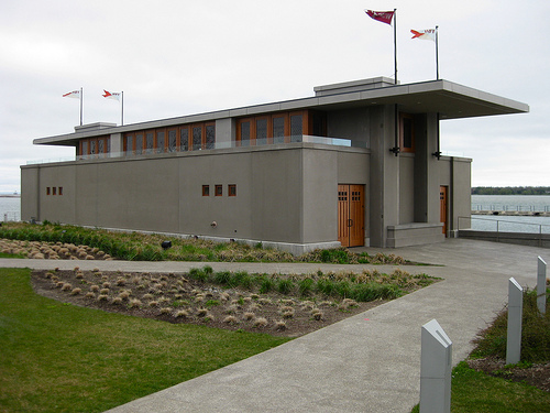 Frank Lloyd Wright's Rowing Boathouse, Buffalo NY